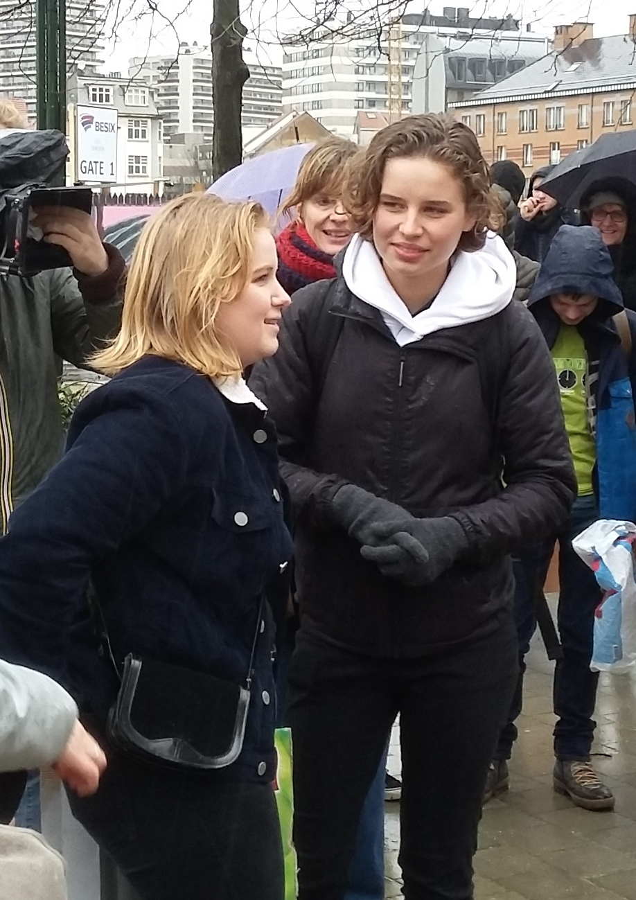 Kyra Gantois and Anuna De Wever, at the march for climate in Brussels, on Sunday 27 January 2019.